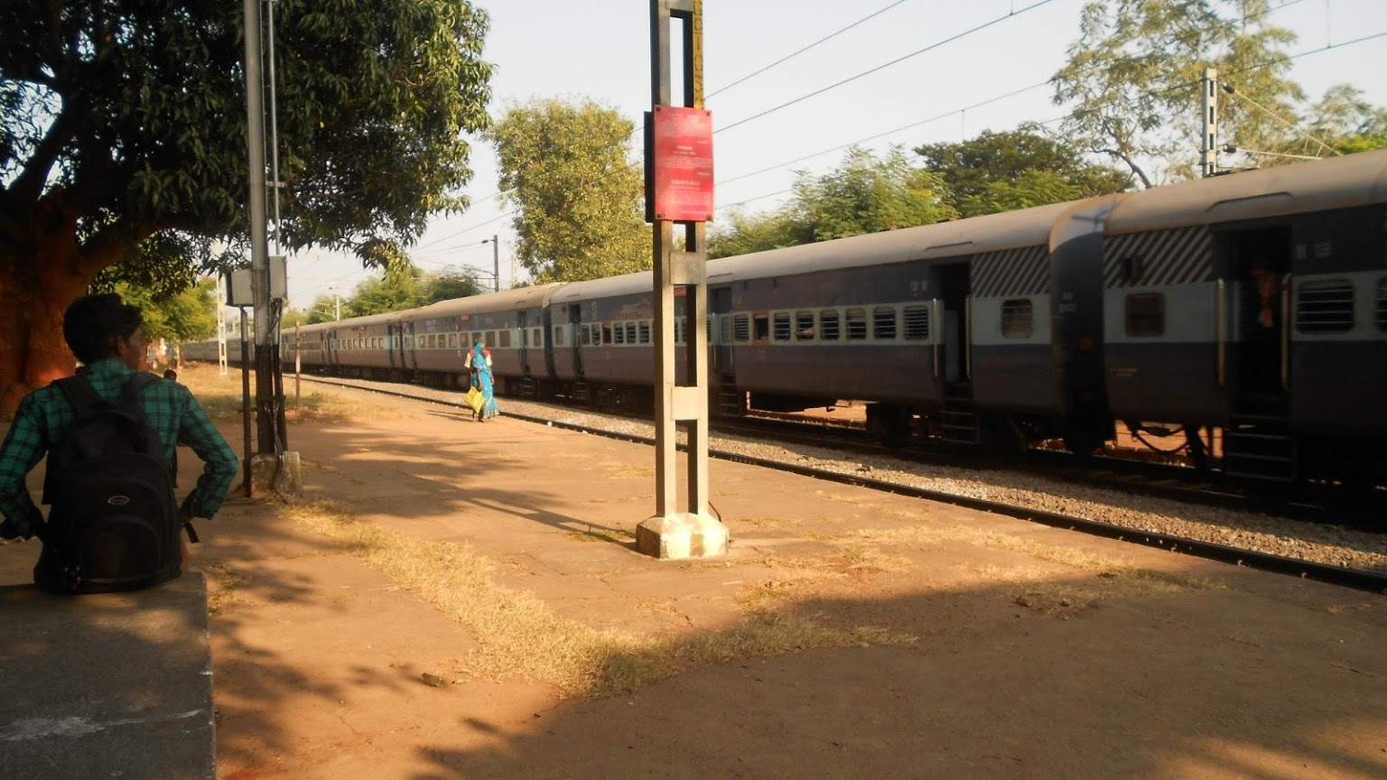 This is the Picture of Gangadharpur railway station